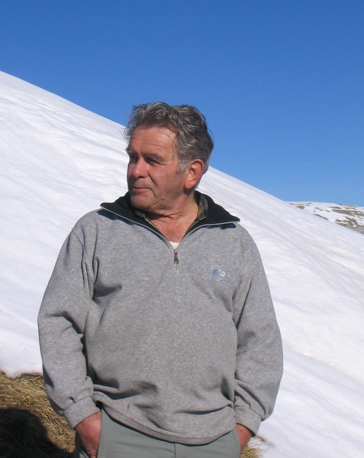 Peter Diener, Swiss Alpinist who did the first ascension of Dhaulagirie